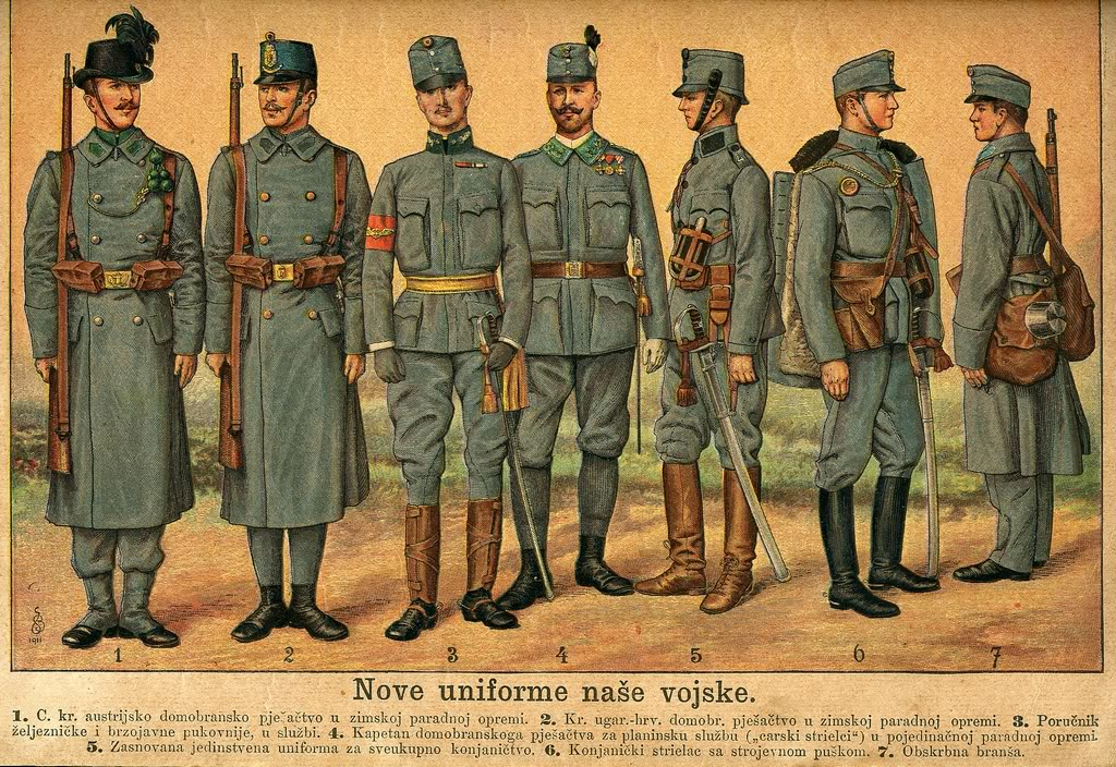 uniforms of Austro-Hungarian Army